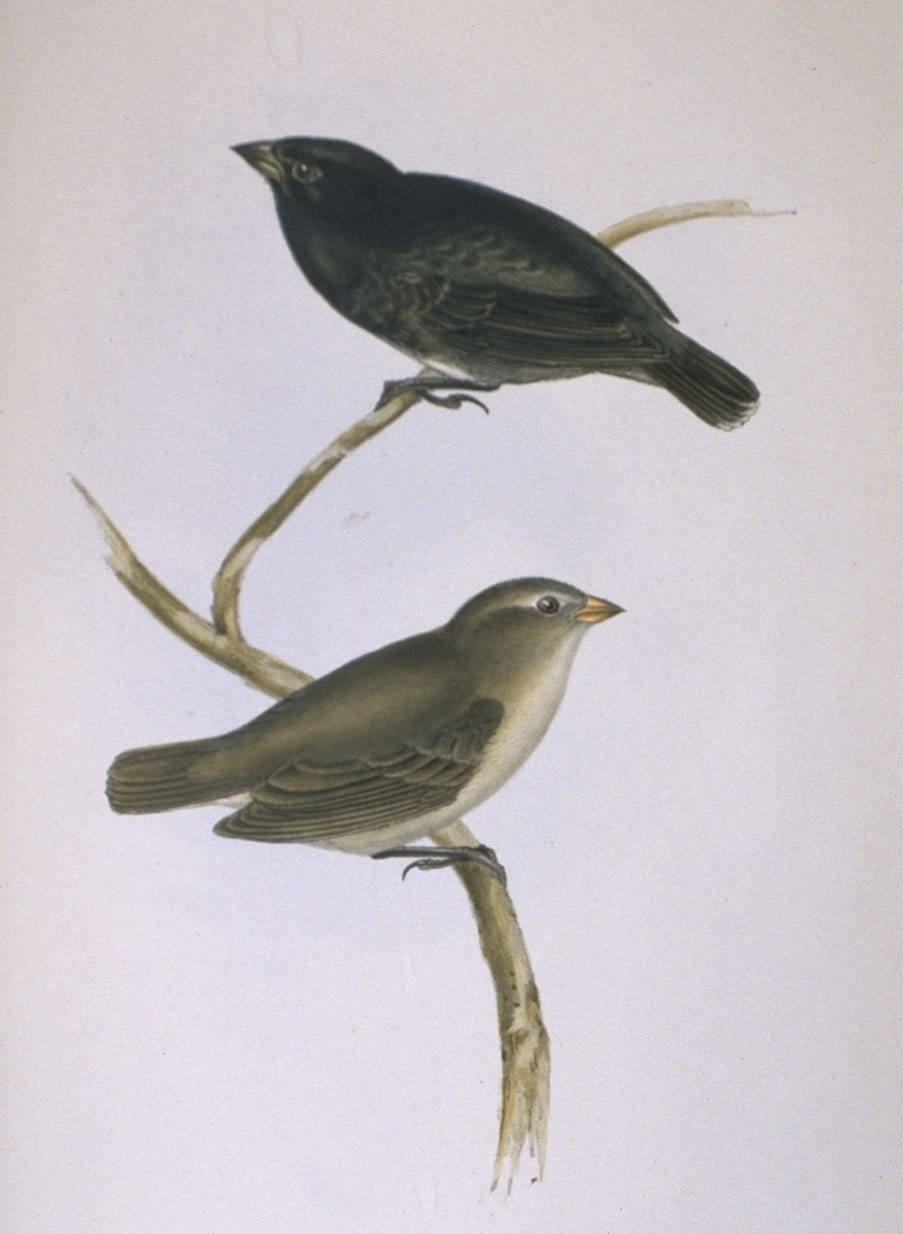 Geospiza parvula. (James’ Island, Galapagos Archipelago) from John Gould's The Zoology of the Voyage of H.M.S. Beagle. Part III: Birds. London: Smith, Elder & Co., 1841.